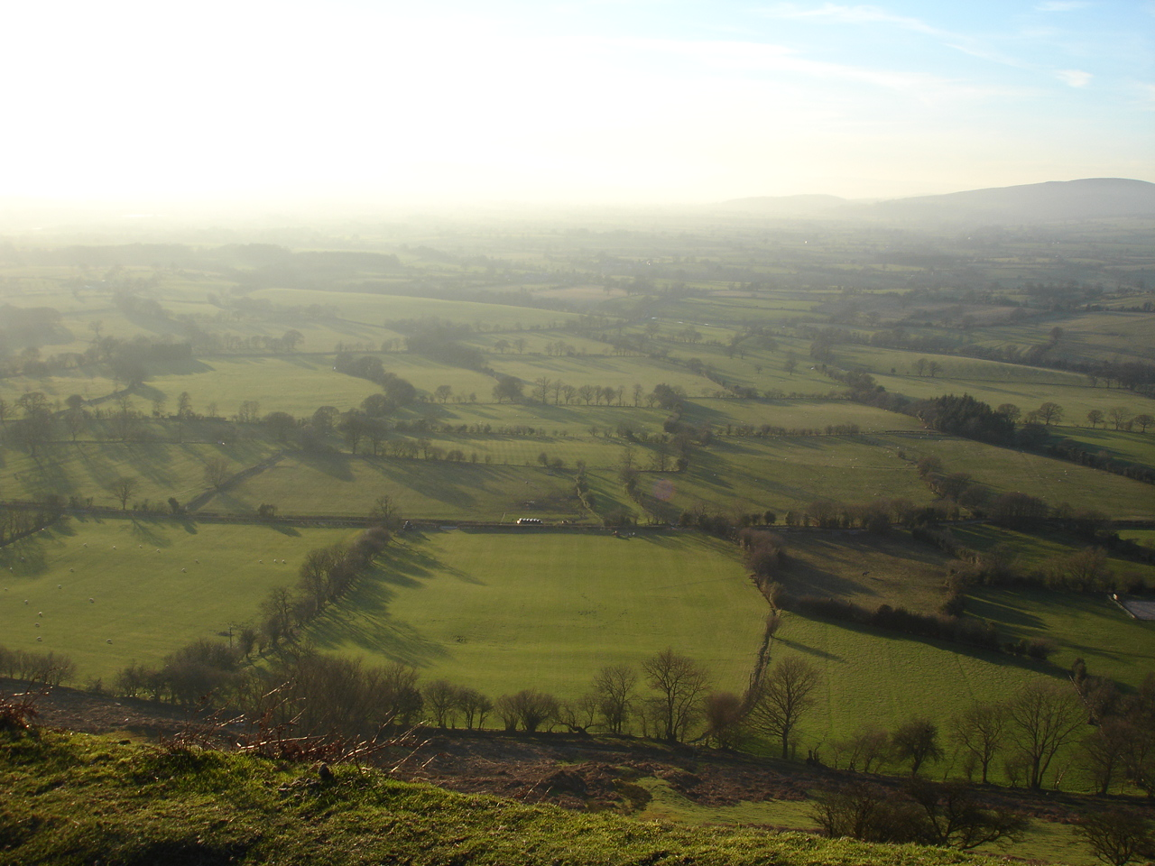 View from Long Mynd